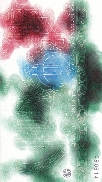 Drawn heavy-handedly using an empty (yellow ink) ballpoint pen. Ballpoint pen inks then added using fingertips: red, green light blue, black (remnants of yellow ink sometimes flowed from the "empty" pen and are visible). The grooves of the "invisible" drawing remain as the "white" of the page showing through the fingerprinted ink colors. Uploaded for use as "new" art at the request of "Ballpoint pen art" editors.